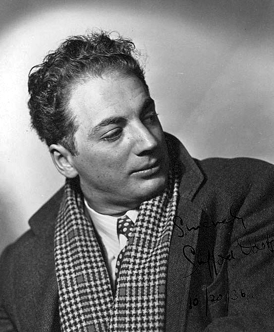 Publicity portrait of Clifford Odets, with signature.